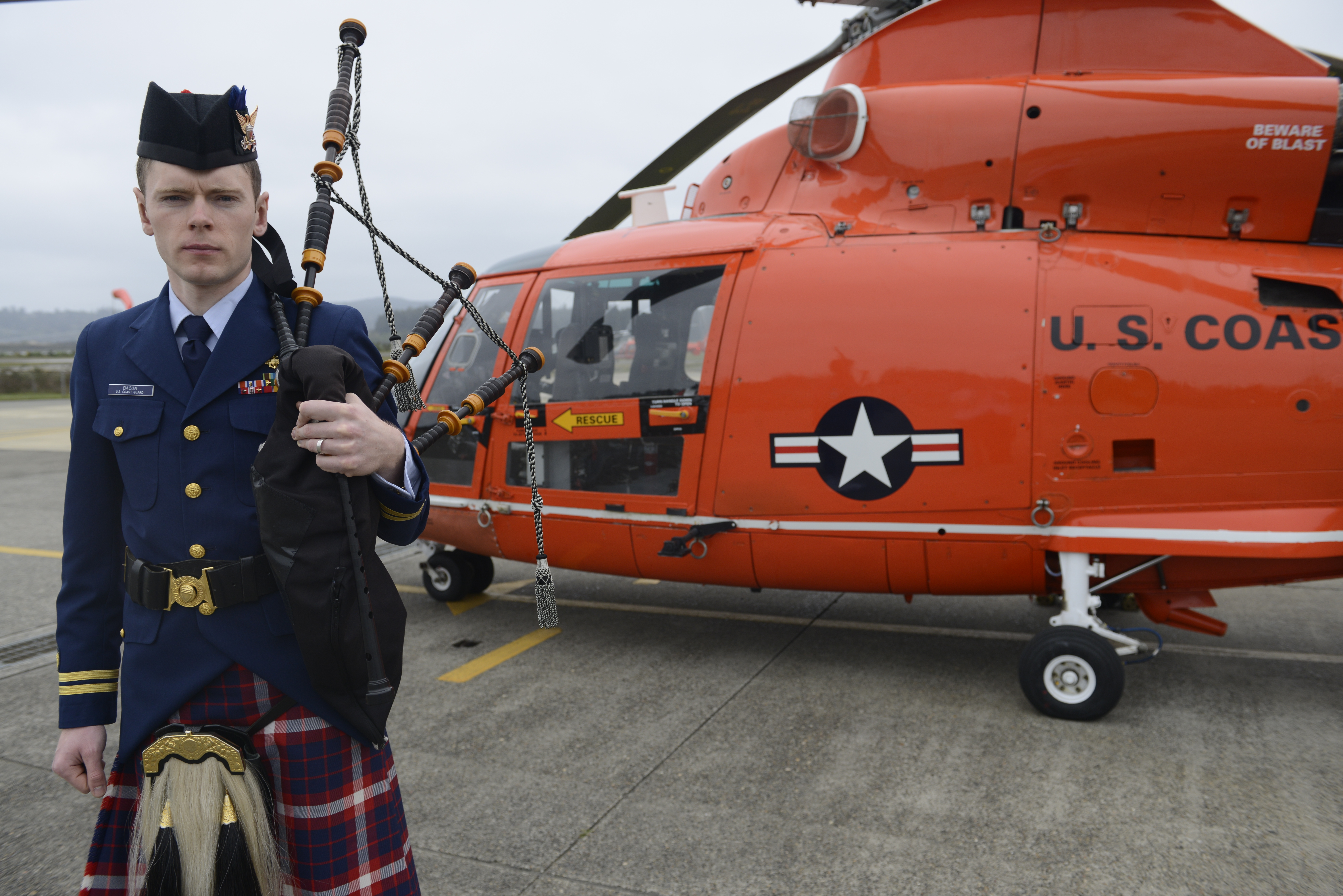 Lt. Andrew Bacon, a piper with the Coast Guard Pipe Band and a pilot at Air Station North Bend, Ore., stands next to one of the station’s MH-65 Dolphin helicopters April 17, 2015. Air Station North Bend is Bacon’s first duty station since graduating from flight school in 2011. (U.S. Coast Guard photo by Petty Officer 3rd Class Amanda Norcross.)